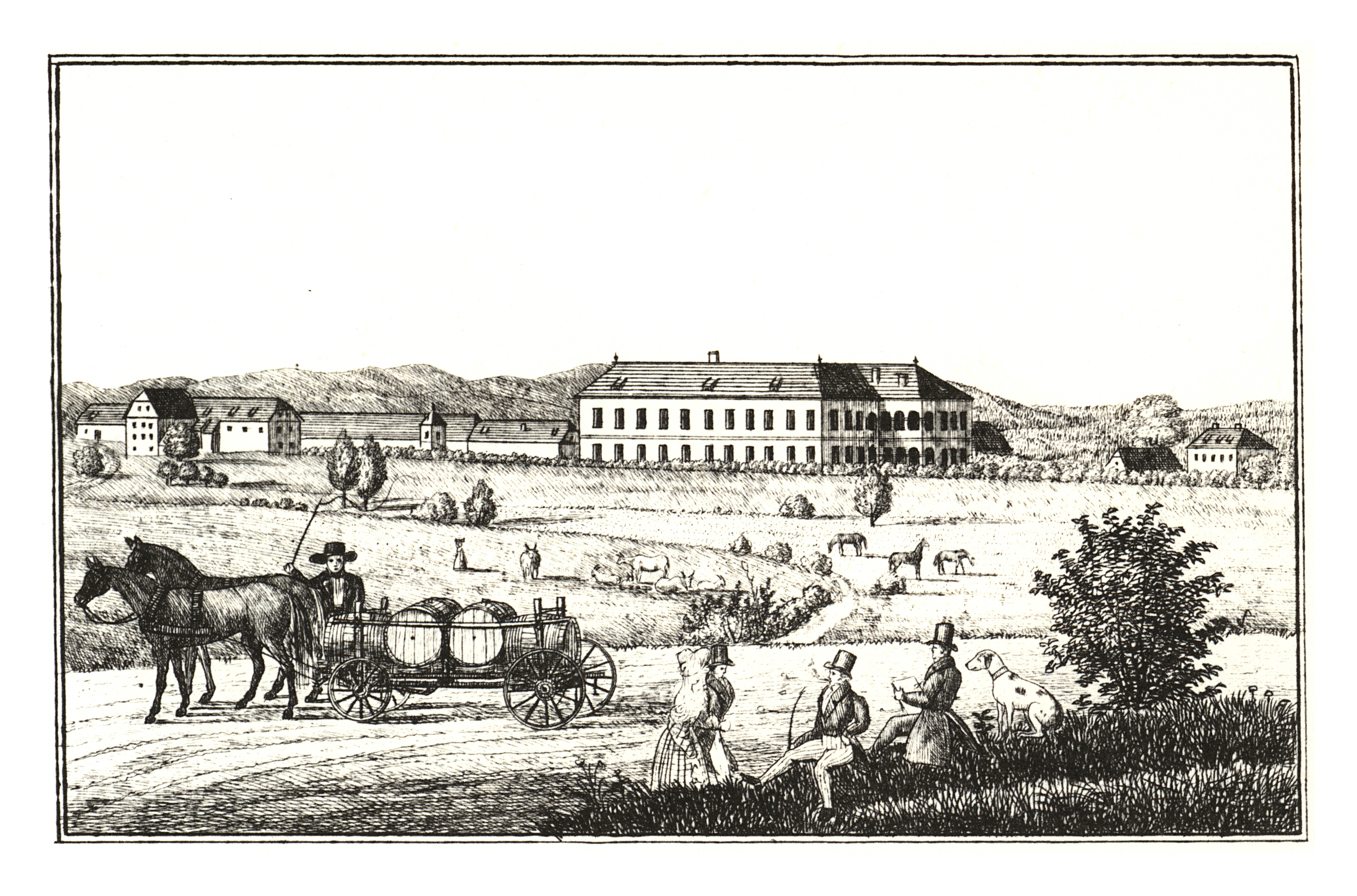 J. F. Kaiser - lithographirte Ansichten der Steyermärkischen Städte, Märkte und Schlösser, Graz 1824-1833 Joseph Franz Kaiser (1786–1859) Alternative names J. F. KaiserDescriptionAustrian printer and editorDate of birth/death 11 March 1786 19 September 1859Location of birth/death Graz (Styria) GrazAuthority control : Q1499963 VIAF: 30629353 ISNI: 0000 0000 3083 0153 LCCN: n87141671 GND: 129880159 NLP: A24960305 WorldCat creator QS:P170,Q1499963 . Scanprojekt Community Projektbudget 2012 This scan or this PDF-file was created within the GLAM-project Bookscanning, supported by Wikimedia Germany and Wikimedia Austria as a part of the community-project to capture books, documents and pictures which are not eligible to copyright or for which the copyright has expired. This document describes or depicts an object which is located in Austria today. Send requests for uncompressed scans to Hubertl. This work is in the public domain in its country of origin and other countries and areas where the copyright term is the author's life plus 100 years or fewer. You must also include a United States public domain tag to indicate why this work is in the public domain in the United States. This file has been identified as being free of known restrictions under copyright law, including all related and neighboring rights.